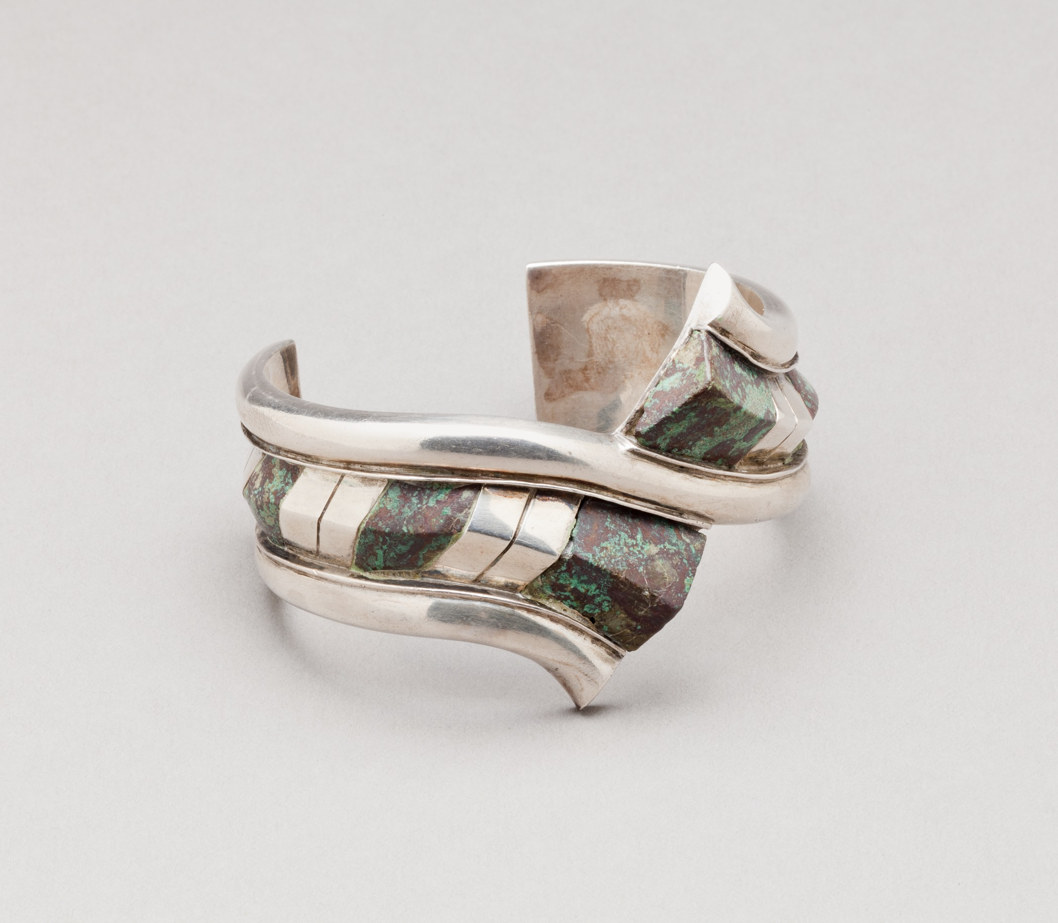 circa 1950 Jewelry and Adornments; bracelets Silver, azur-malachite Gift of Goddard Family in Memory of Phyllis Goddard (M.2012.189.5) Latin American Art